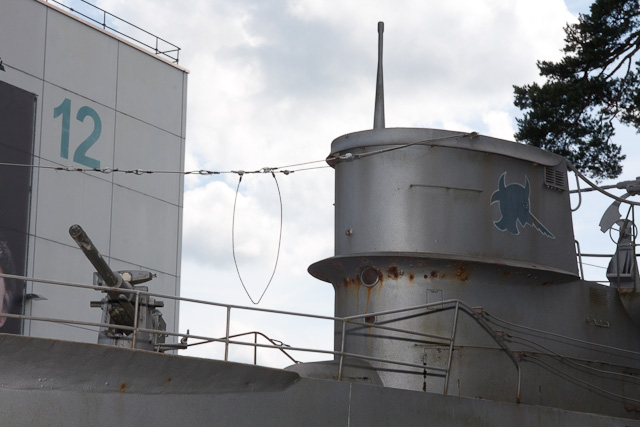 A 6 meter long model of the submarine, used when making the movie Das Boot. In Bavaria Studios outside Munich, Germany.